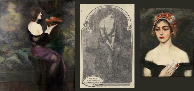 Three paintings by Elizabeth Watrous, wife of artist Harry Watrous, c. 1915-1921. In the center is "In the War Zone" from 1915, which was noted in the New York Times and in the International Herald Tribune when it was banned from an exhibition at the New Rochelle public library as not suitable to be seen by children.